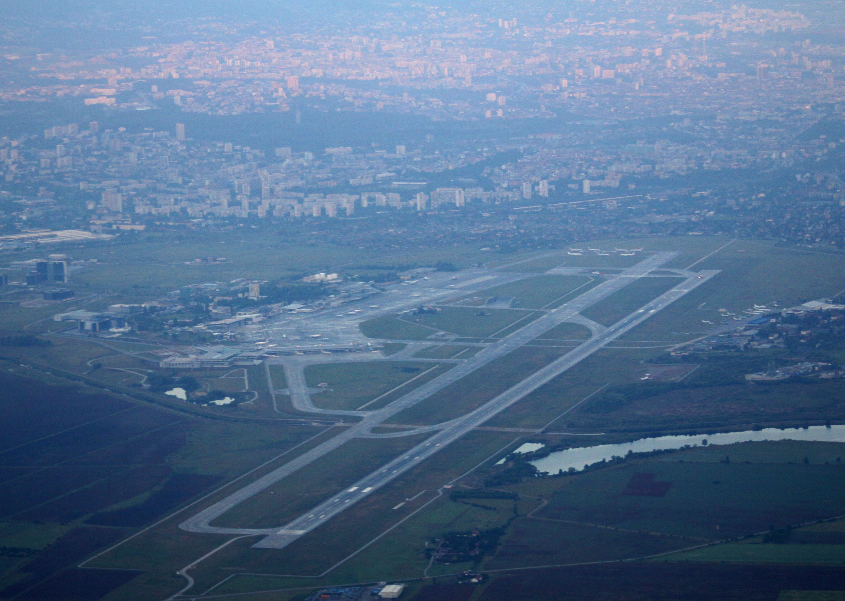 Sofia Airport right after takeoff.